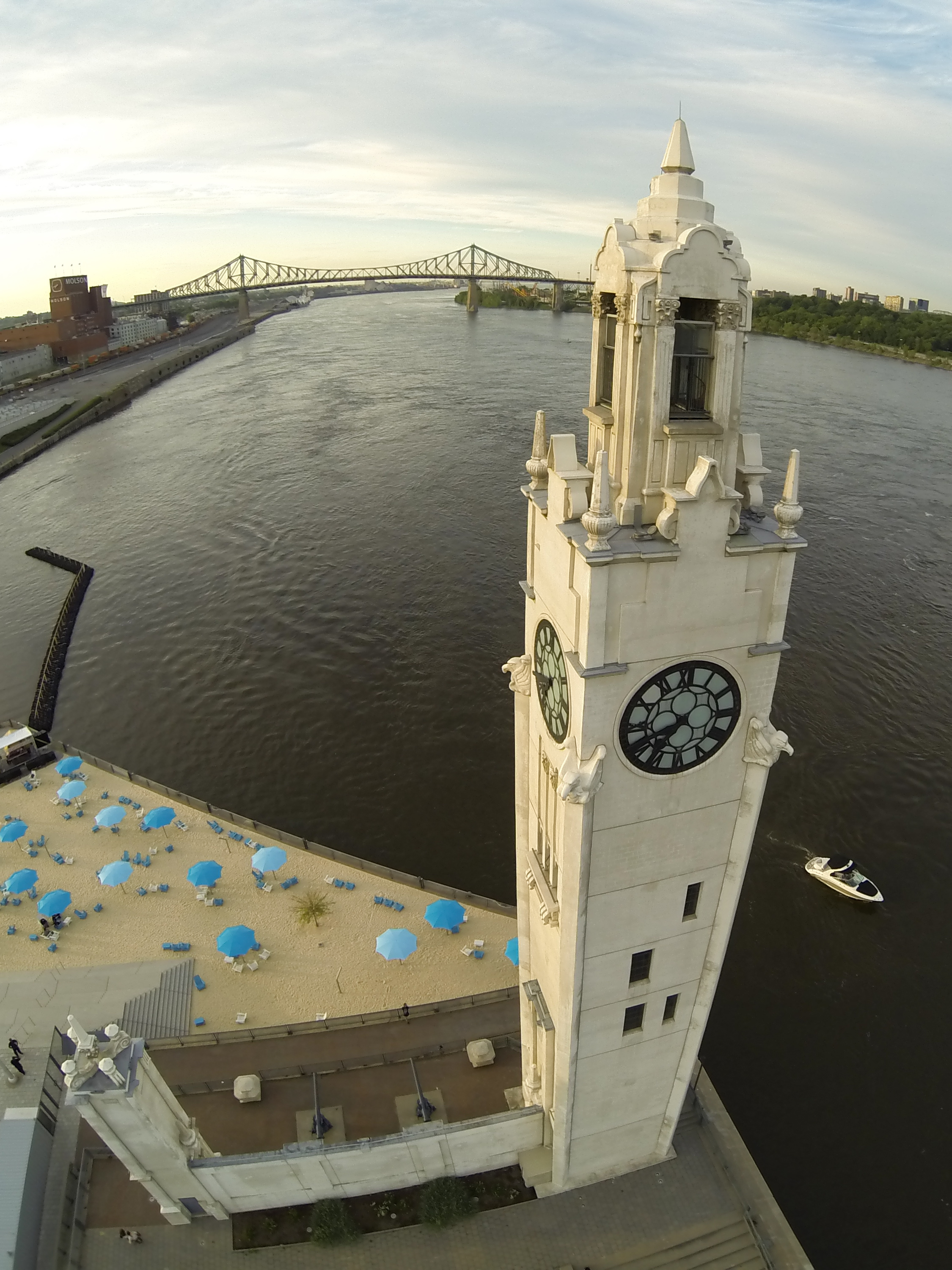 Montreal Clock Tower, Taken with a Gopro H3BE camera mounted on a DJI Phantom quadropter.